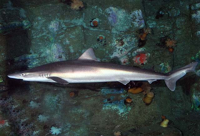 Galeorhinus galeus (Aquarium of the Bay)